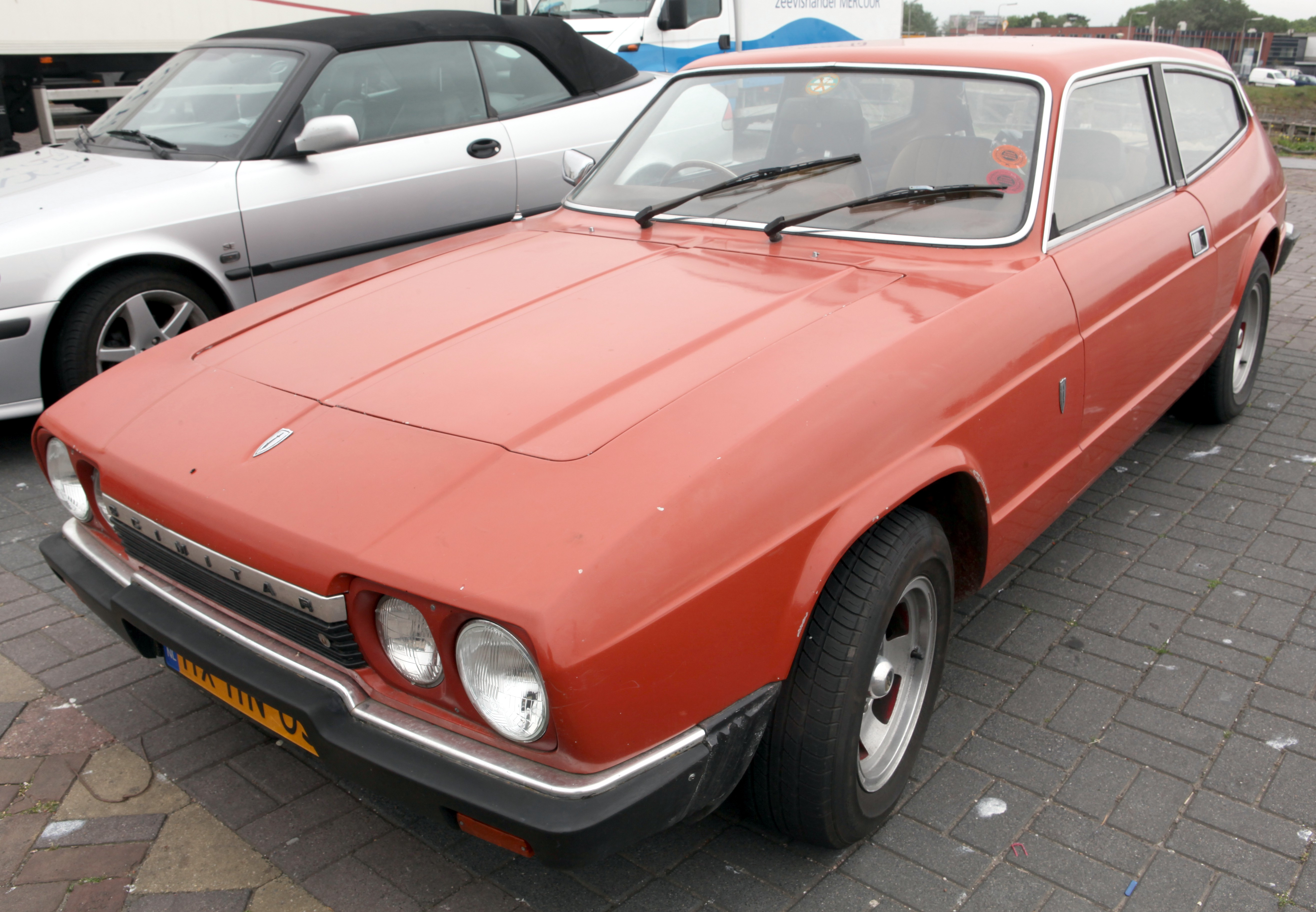 Reliant Scimitar GTE SE6 (1975-76), SE6A (1976–79) and SE6B (1979–86)